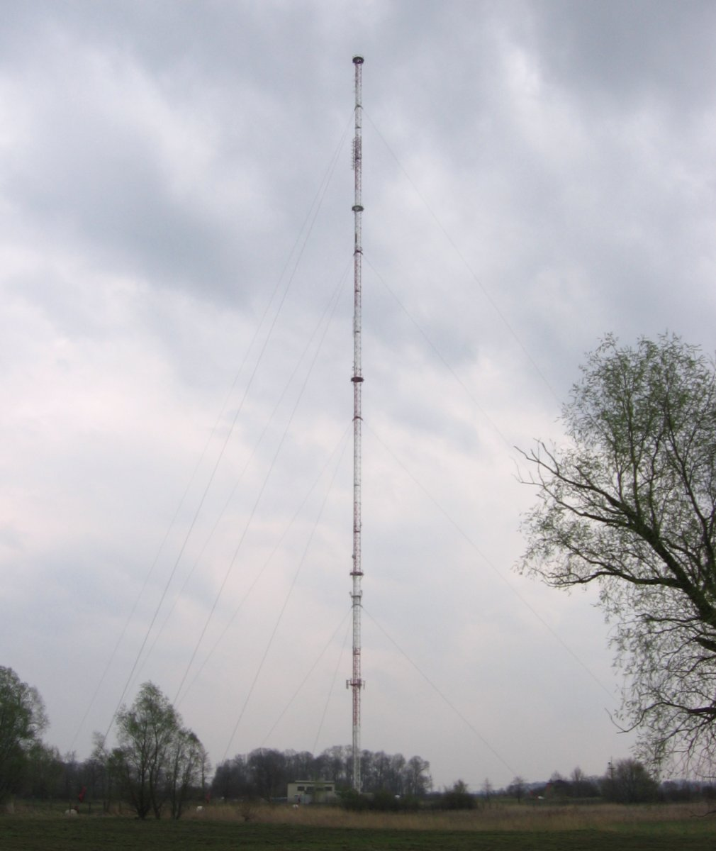 New steel broadcasting pole in Żórawina near Wrocław, erected after liquidation the old, wooden one, highest in Europe.